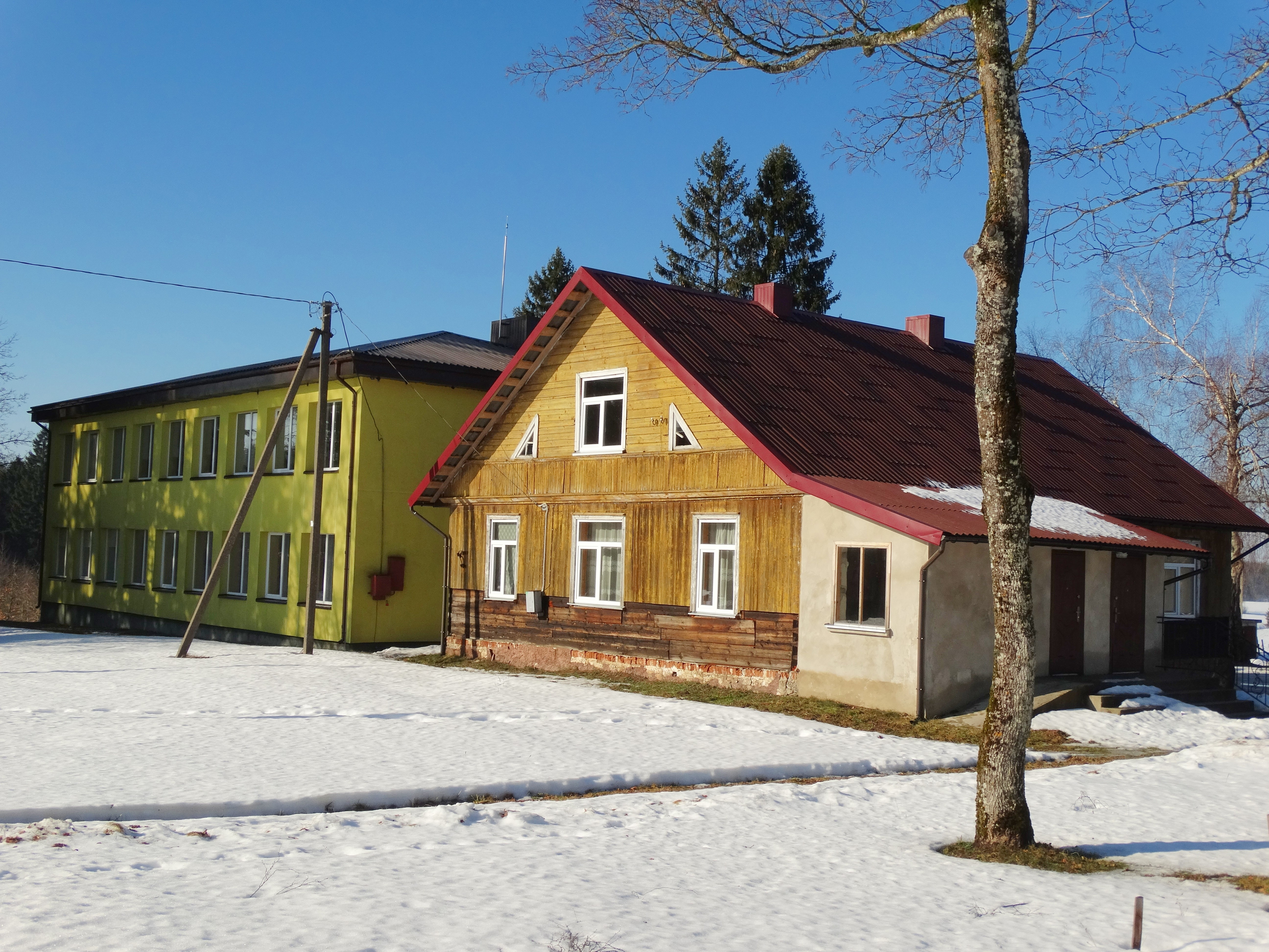 Rectory, Tūbinės I, Šilalė district, Lithuania